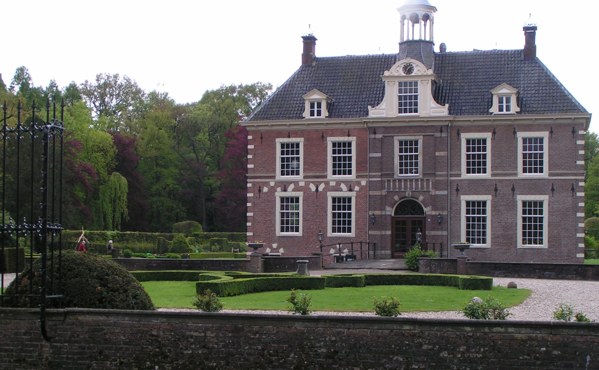 Warmelo Castle at Diepheim (Twente, Netherlands)